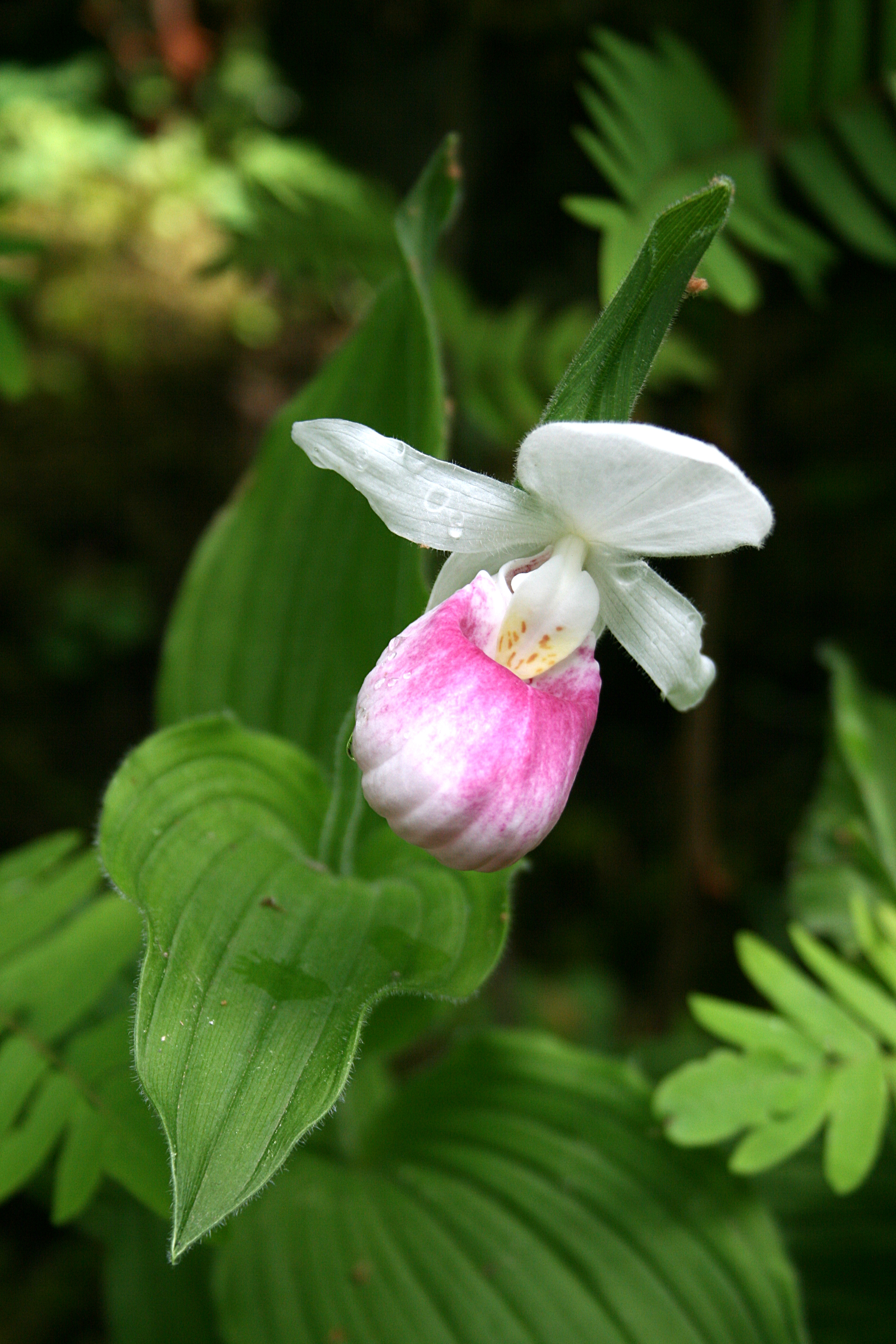 Showy Lady's-slipper